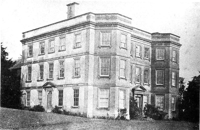 Early photo of The Upper House, Alderley in Gloucestershire, built on the lower slopes of Winner Hill in 1777-80 for Matthew Hale as the new Hale family home, demolished in 1859 by Robert Blagden Hale